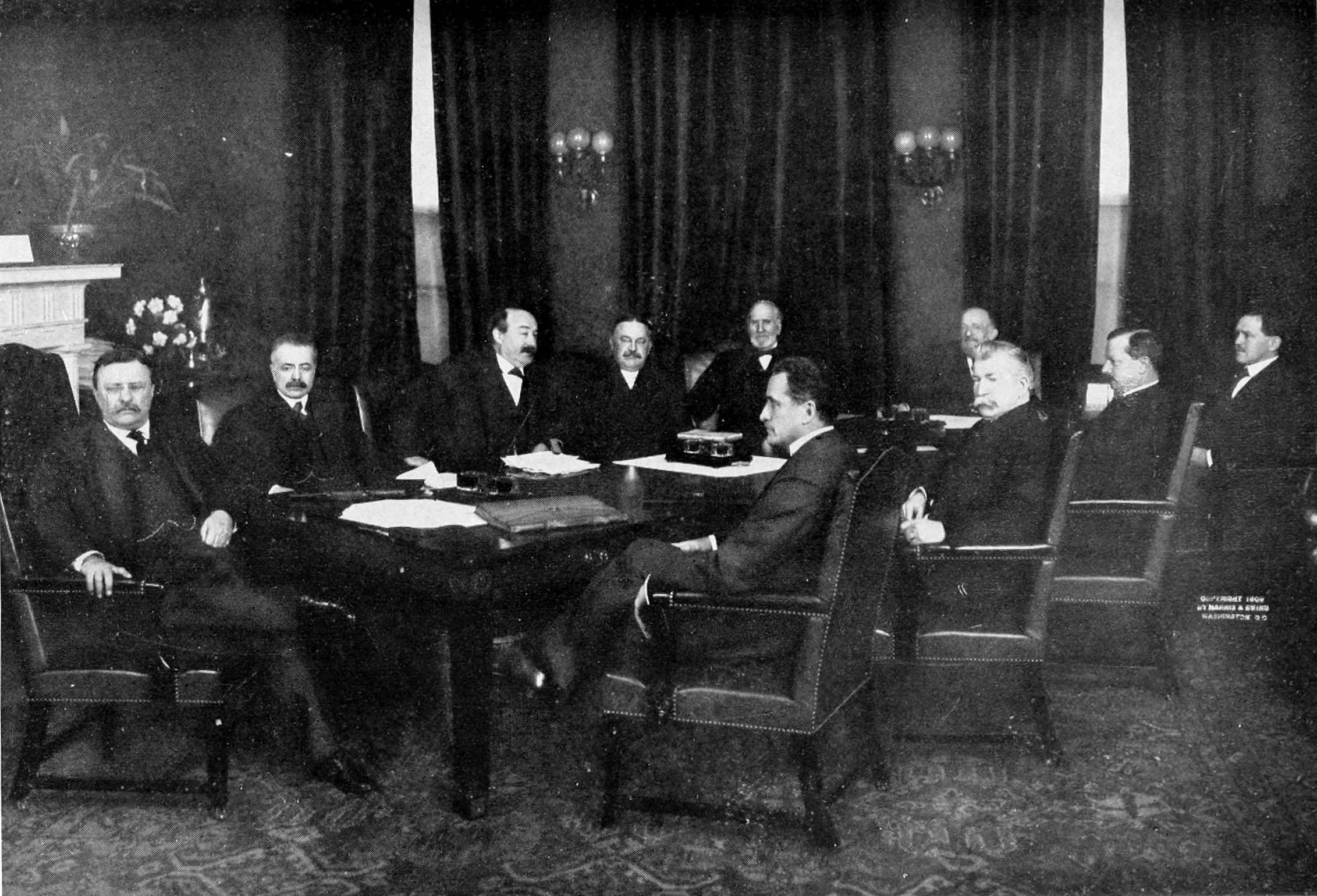 Group portrait of the cabinet of President of the United States Theodore Roosevelt (at far left). Left to right in back of table: George B. Cortelyou, Charles Joseph Bonaparte, x, James Wilson, Truman Handy Newberry. Left to right in front of table: x, Luke Edward Wright, George von Lengerke Meyer, James Rudolph Garfield